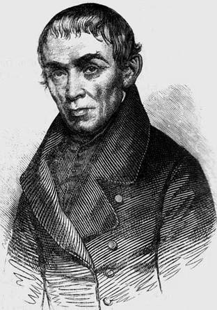 János Kis (1770–1846) Hungarian lutheran pastor, protestant superintendent, poet, translator